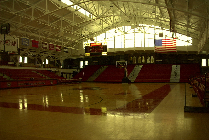 I took this photograph of the Rose Hill gymnasium at Fordham University. The gymnasium is the oldest active basketball court in the United States. -- GNU Free Documentation License